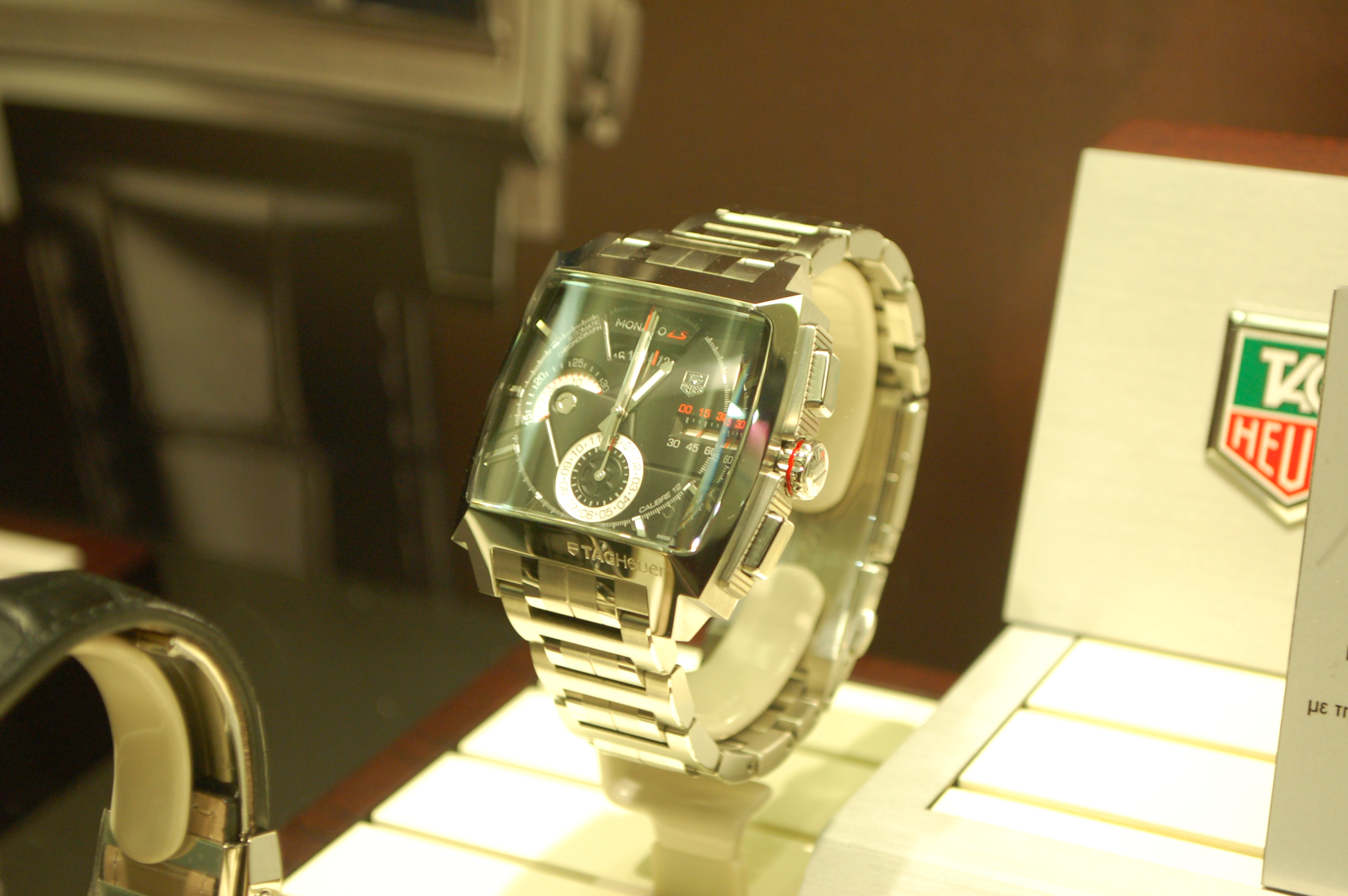 TAG Heuer Monaco LS with Calibre 12. Displayed at Athina Fair 2009.